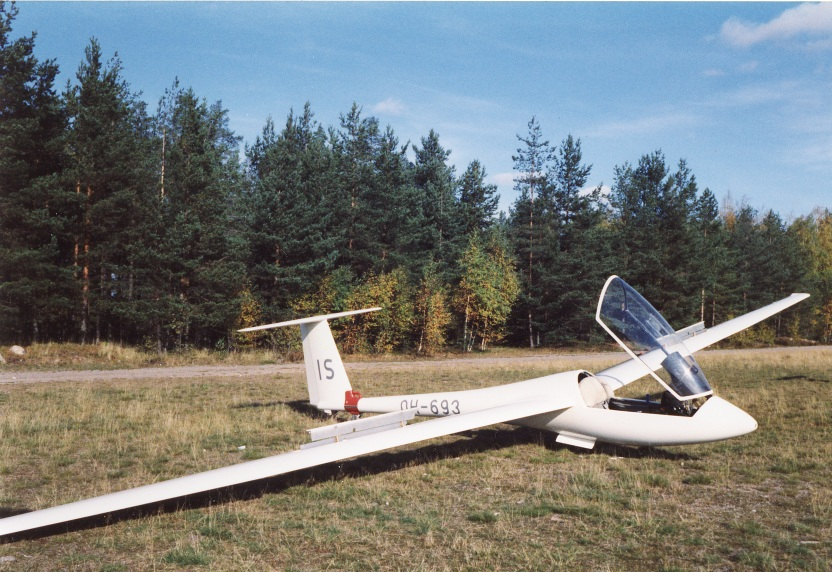 Rolladen-Schneider LS-4a glider aircraft in 1998. The aircraft was built in Germany by Rolladen Schneider Flugzeugbau GmbH in 1984. The wingspan of the aircraft is 15.0 metres and its glide ratio is 40:1.